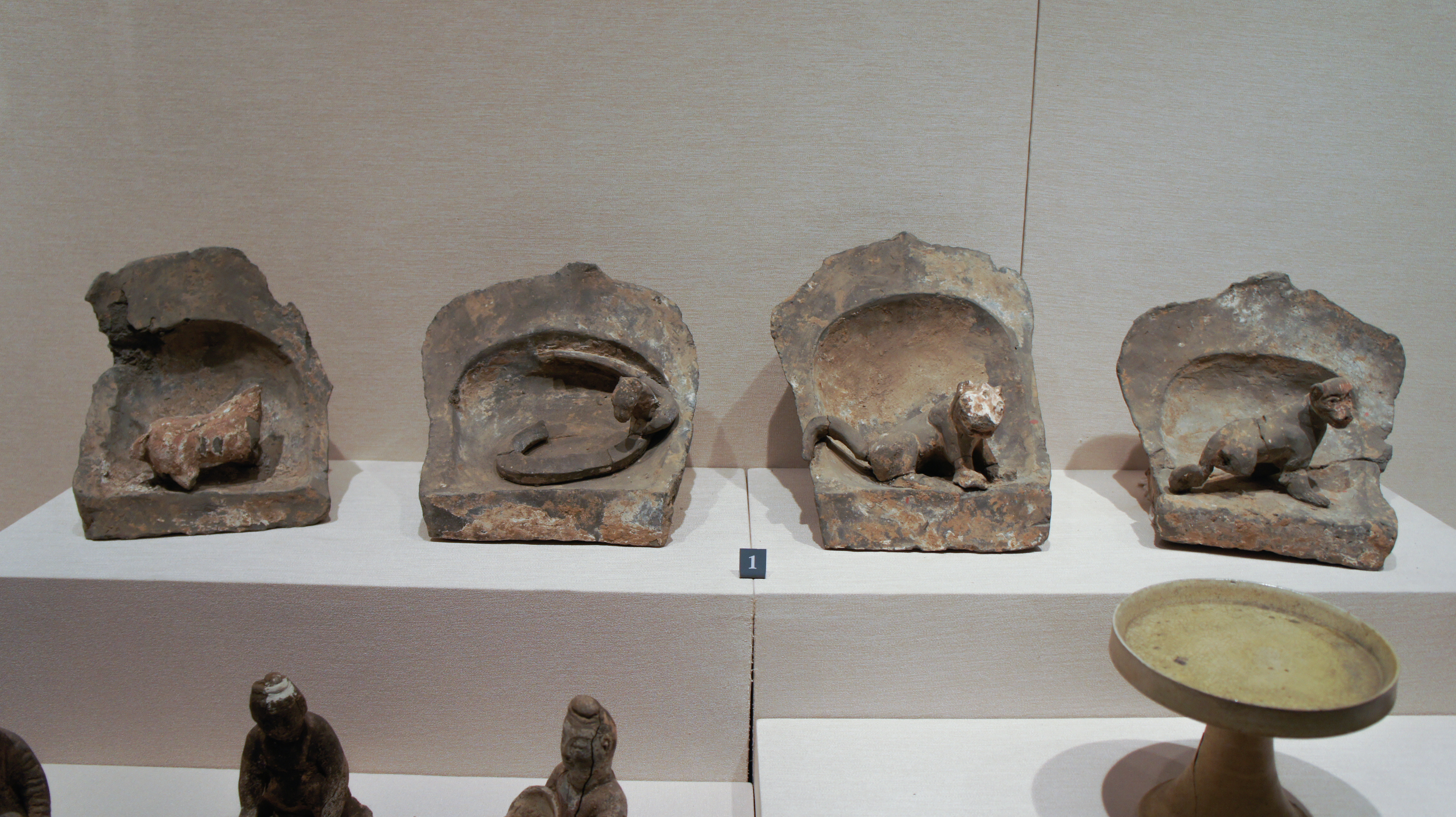 Chinese zodiac figures dated from Northern Wei (386 - 535 AD), from right to left, Monkey, Tiger, Snake and Pig, excavated from Tomb No.10 of Cui Family Tomb complex (临淄崔氏墓群) at Linzi, Shandong.